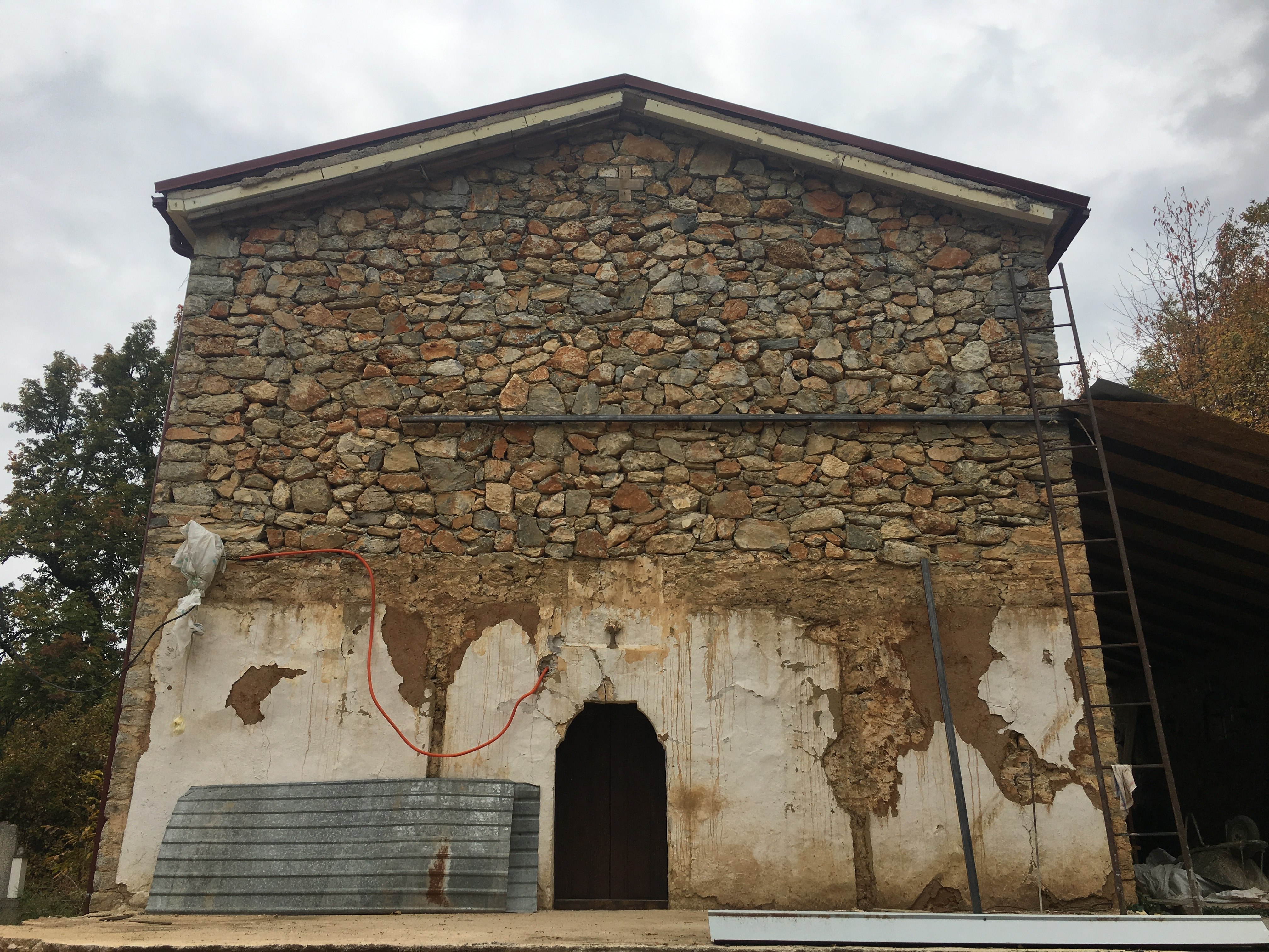 Wikiexpedition to Kopačka